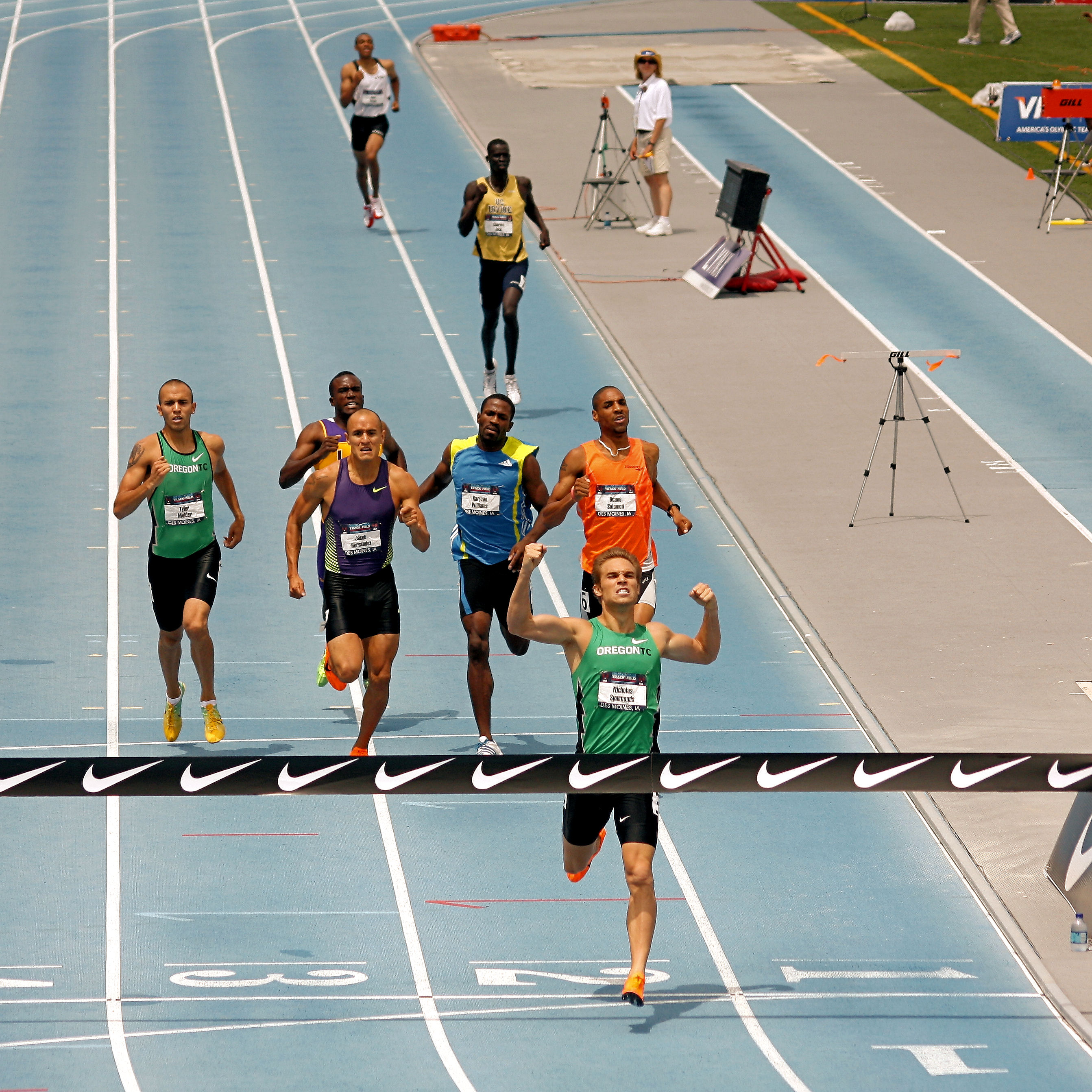 Nick Symmonds winning the men's 800m national title.